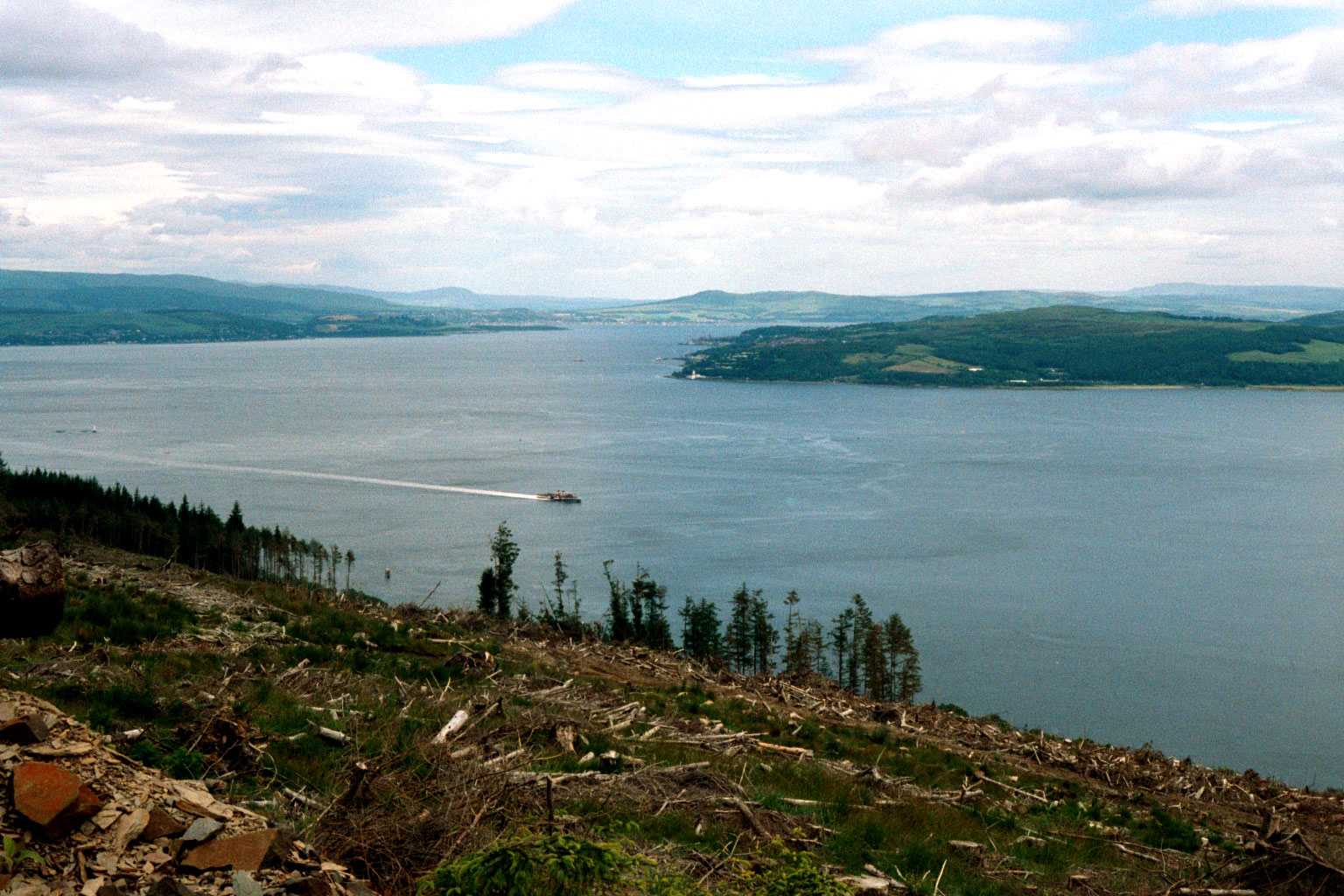 The upper Firth of Clyde seen from the Cowal peninsula, looking north east across the Clyde to the white shape of the Cloch Lighthouse marking Cloch Point just south of Gourock. To the left the entrance to Loch Long lies before the Rosneath peninsula, and beyond the peninsula the Gare Loch runs north, while to the east the Clyde continues past the anchorage known as the Tail of the Bank and gradually narrows as it becomes the River Clyde. The paddle steamer PS Waverley can be seen cruising south "doon the watter".